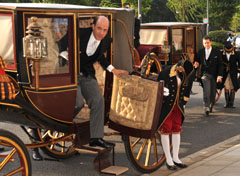 John Roos, Ambassador to Japan, rode in the Imperial horse-drawn carriage to attend the Ceremony of the Presentation of Credentials in Chiyoda Ward, Tōkyō Metropolis on August 20, 2009.